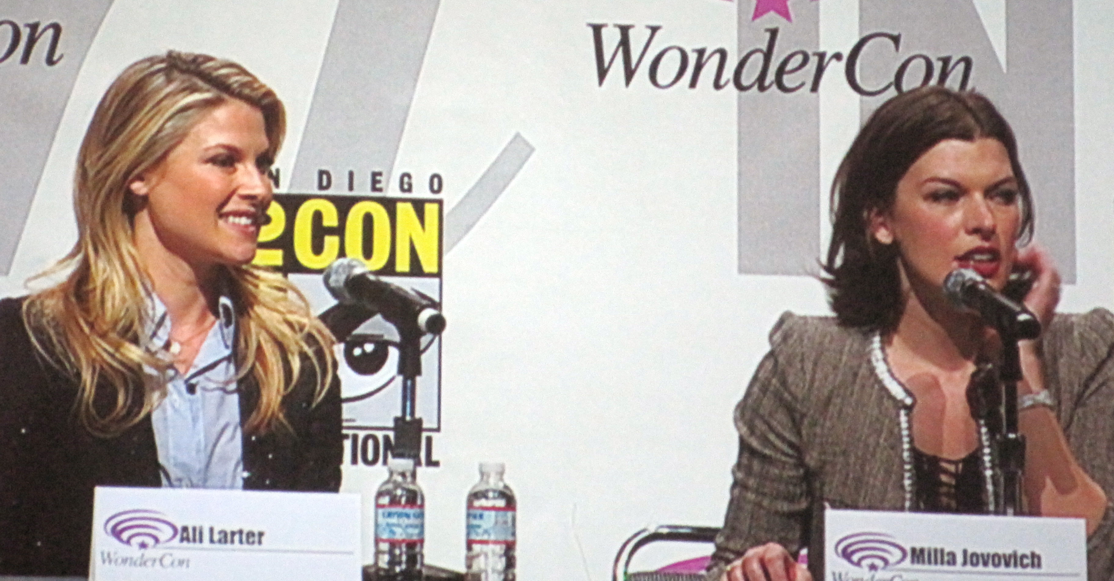 Actresses Ali Larter and Milla Jovovich participating in a panel on Resident Evil: Afterlife at WonderCon 2010.